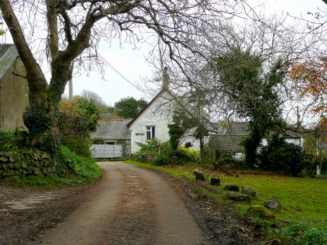 Rosenithon A hamlet between St. Keverne and Porthoustock. Note the anchor half-buried in the ground to the right of the road.